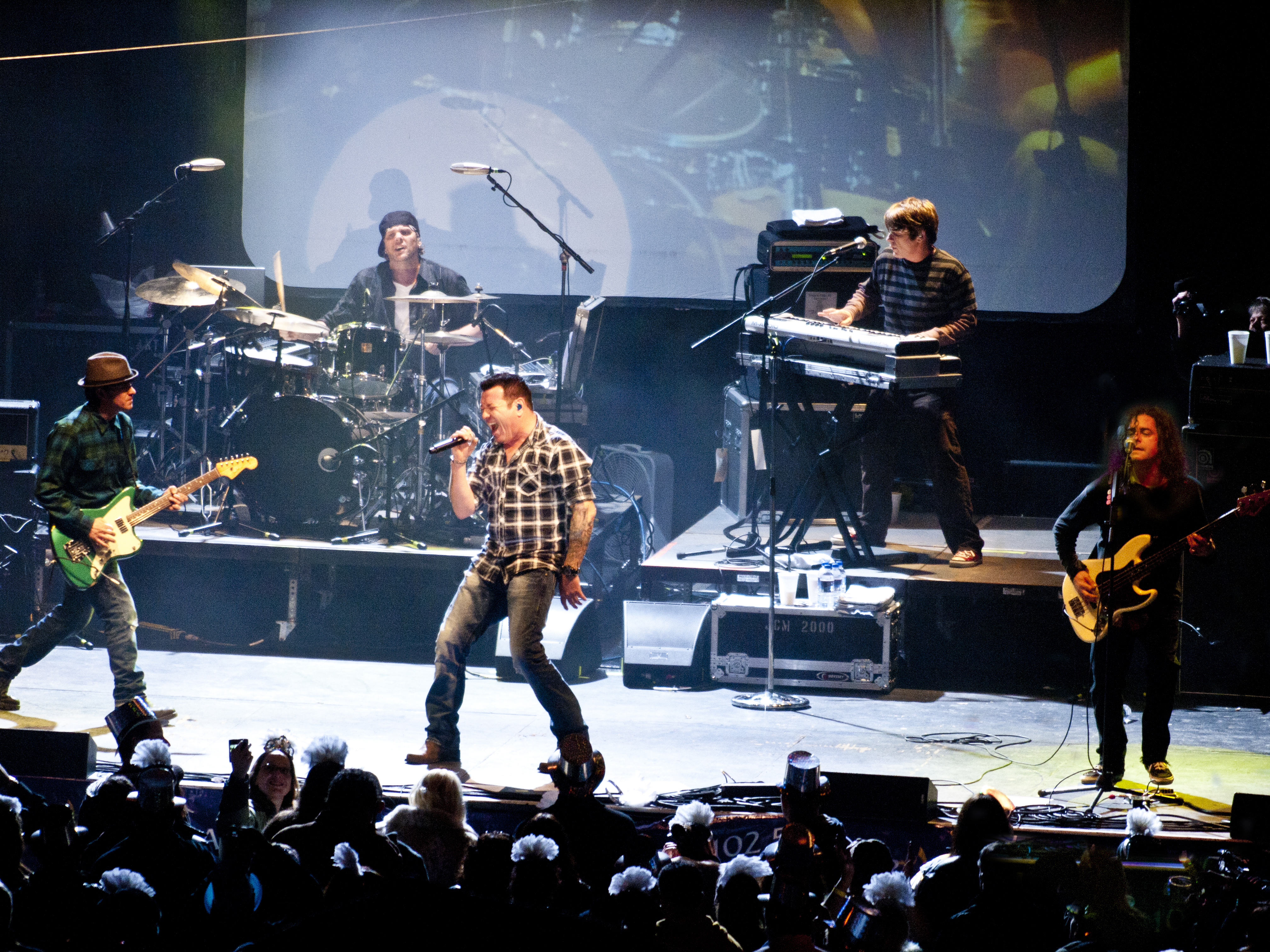 Smash Mouth performs at The Hard Rock Cafe's Guitar drop on New Years Eve in Niagara Falls, NY